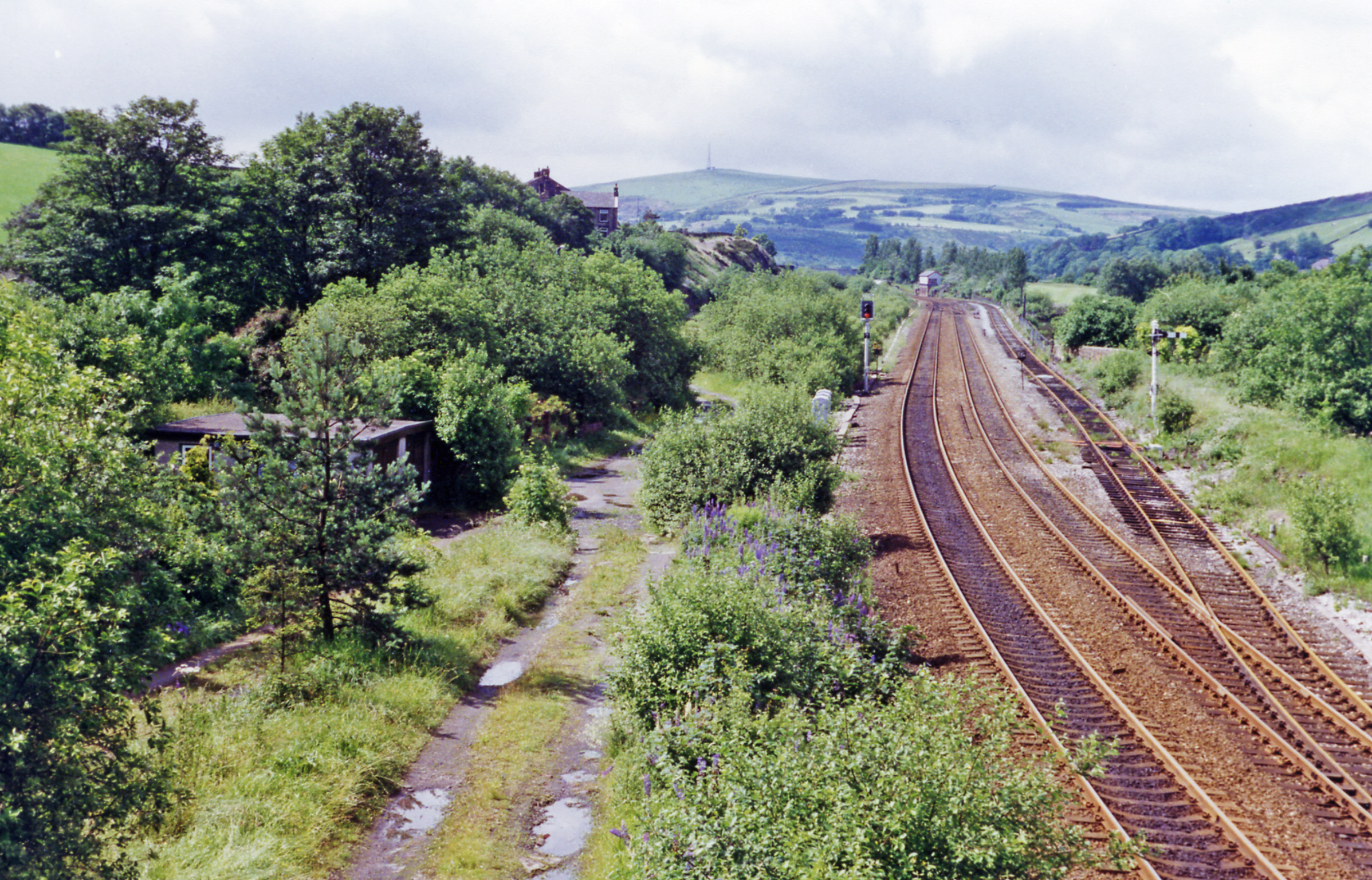 Site of former Diggle station, 1996. View westward from above the western portals of the Standedge Tunnels near Saddleworth, on the main ex-LNWR Manchester - Stalybridge - Huddersfield - Leeds line. The track-bed on the left had been for the Slow lines, which went into the two earlier single-line tunnels until 31/10/66, although the Micklehurst Loop from Stalybridge was closed 7/9/64: the remaining double track runs through the 1894 tunnel. The Canal Tunnel, recently restored, is on the far side. Diggle station was closed 7/10/68. The hill on the horizon topped with a mast is Wharmton - west of Uppermill.